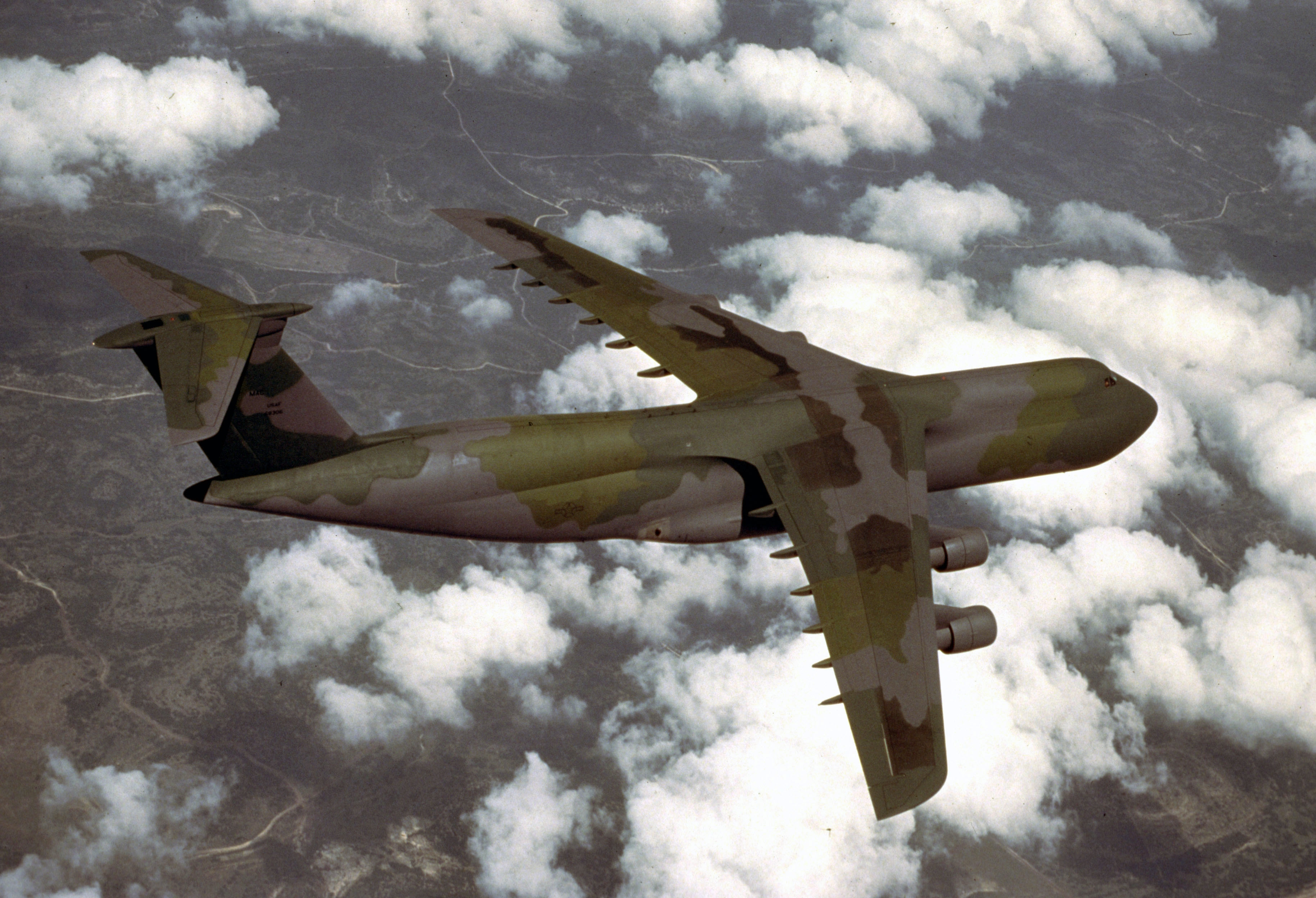 A U.S. Air Force Military Airlift Command Lockheed C-5A Galaxy (s/n 66-8306) in flight. This aircraft was retired to the AMARC as CM0003 on 18 February 2004.